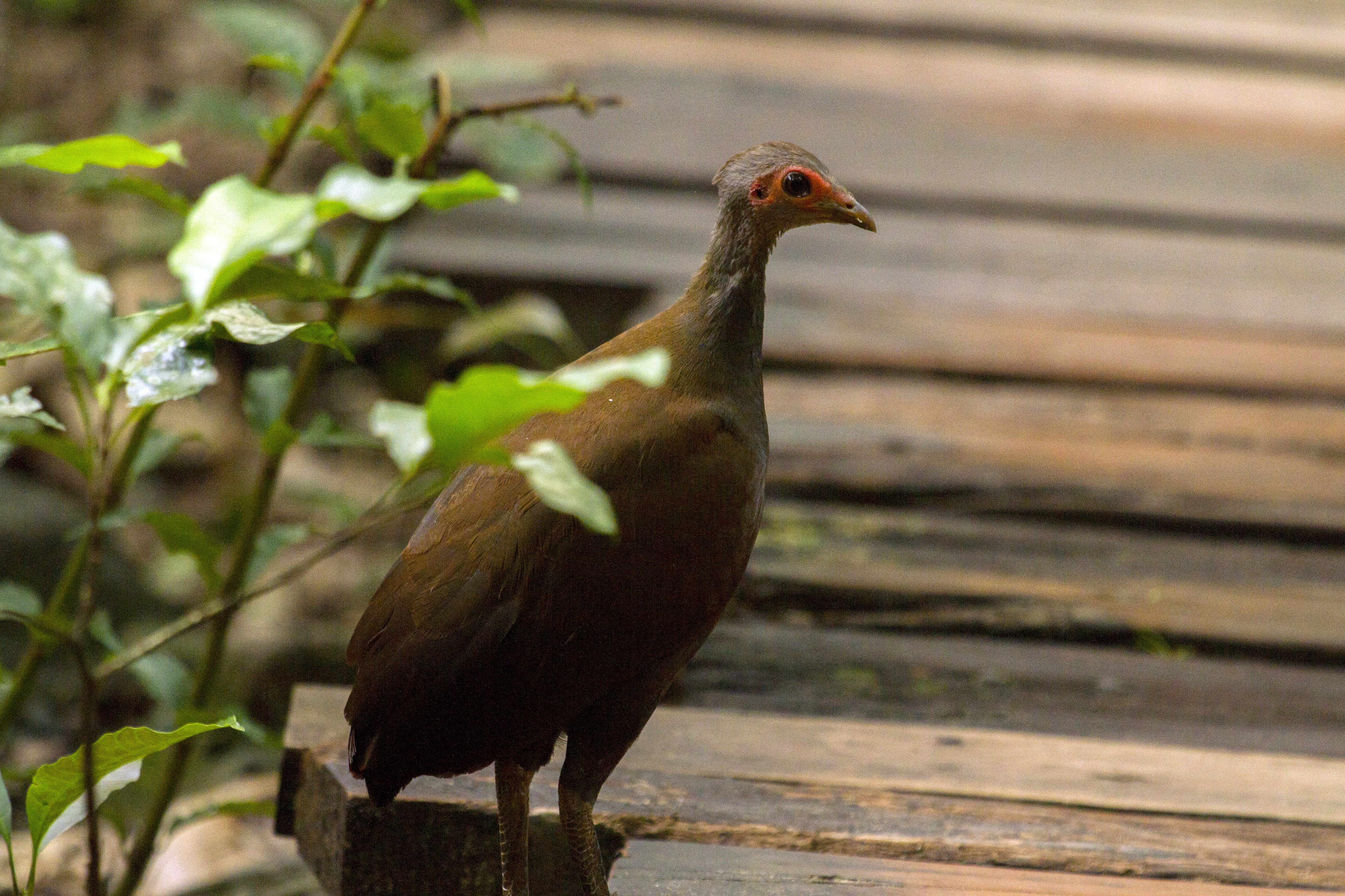 Philippine Megapode Tabon Scrubfowl Megapodius cumingii photographed in the wild on Palawan Island Philippines in 2013.